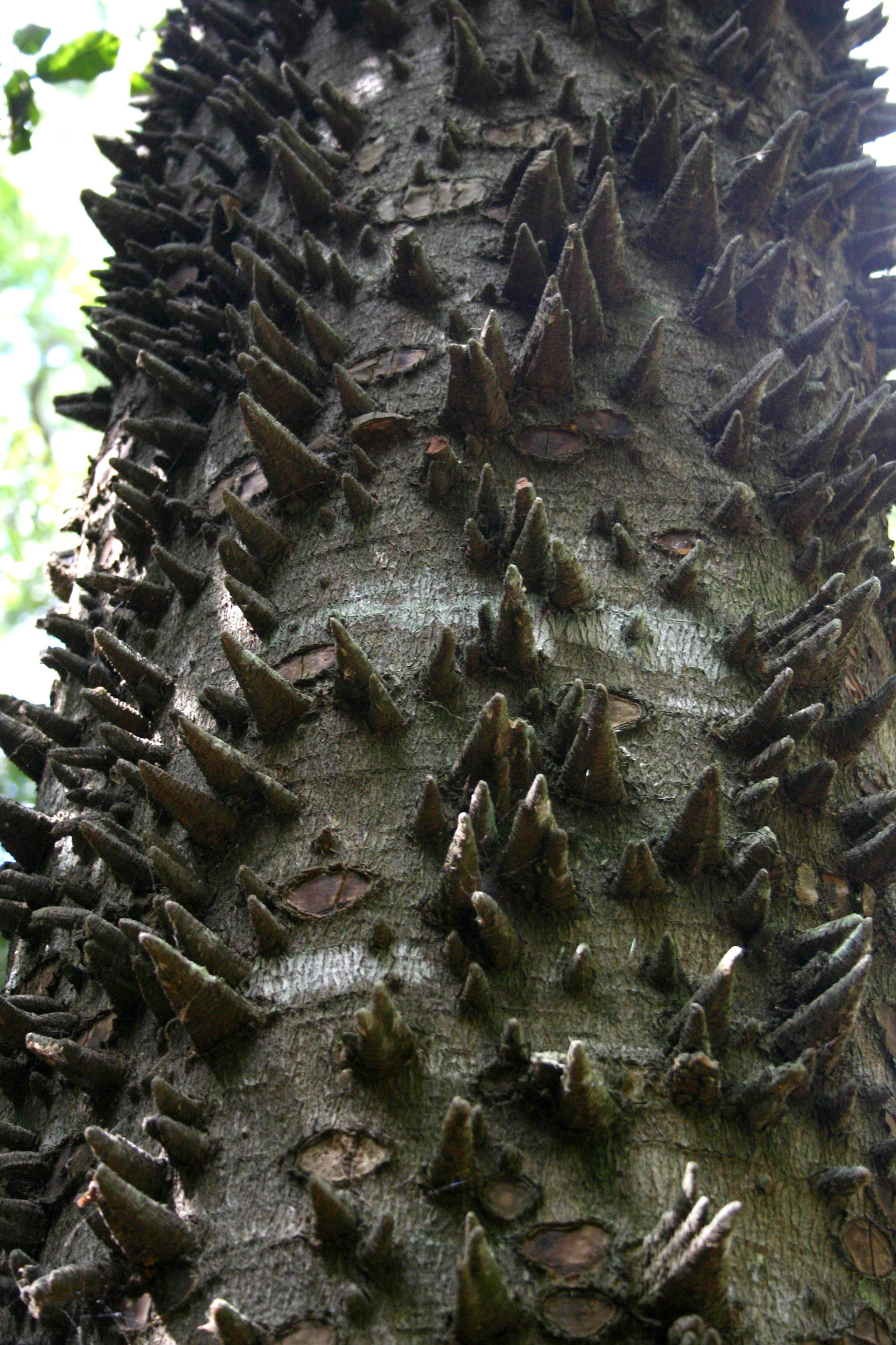 Zanthoxylum davyi bark - Streambed walk, Nature's Valley